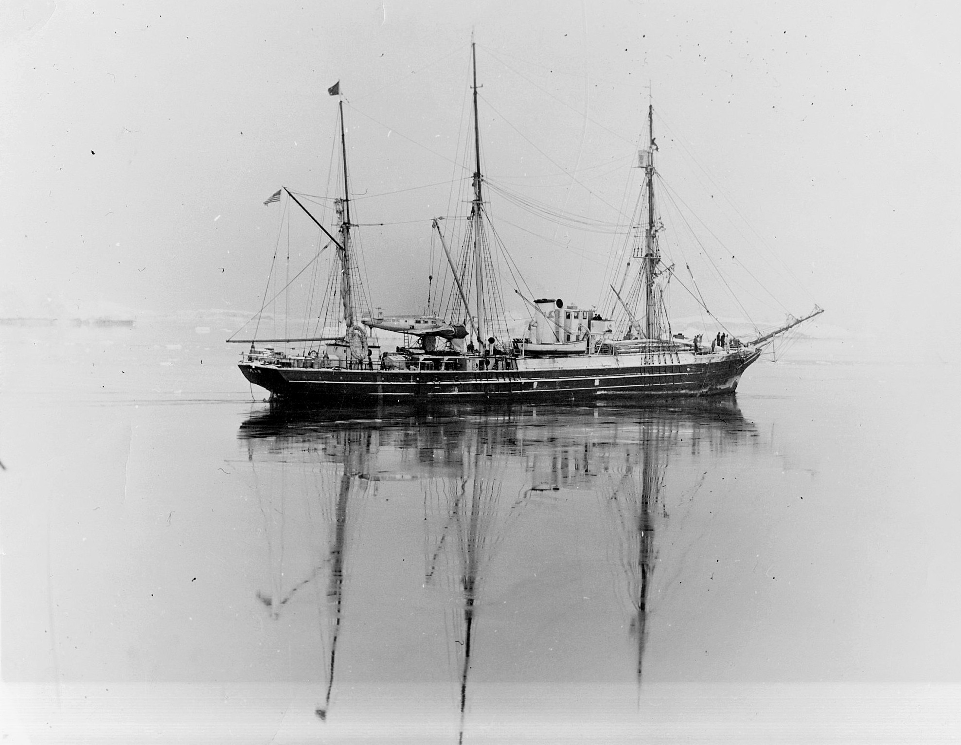 The U.S. Navy survey ship USS Bear (AG-29) pictured in Antarctic waters during operations with the U.S. Antarctic Service. Note the aircraft on the ship. "One of two ships that supported the 1933-1935 Byrd Antarctic Expedition, Bear was built in Scotland in 1874, and purchased by the U.S. Navy ten years later specifically for use in the rescue of members of the Greeley expedition in the Arctic. Along with another ship, Thetis, she rescued six survivors on 23 June 1884. Transferred to the Revenue Cutter Service (later U.S. Coast Guard), she served until 1929, making 34 voyages to Alaskan and Arctic waters. She was sold to the City of Oakland, California, in 1929 for use as a museum. After participating in the Byrd expedition of 1933-1935, during which she was known by the name Bear of Oakland, the ship was repurchased by the Navy in 1939. Commissioned as Bear (AG 29), she made two voyages to the Antarctic as part of the U.S. Antarctic Service and subsequently operated with the Northeast Greenland Patrol until decommisioned in 1944." (NMNA)